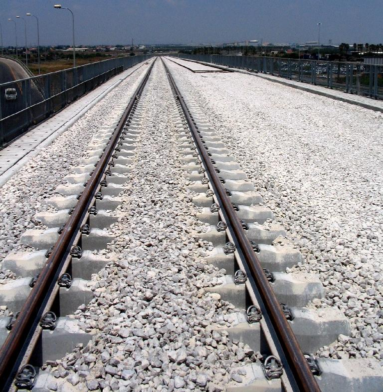 Rail tracks with ballast — in Israel.